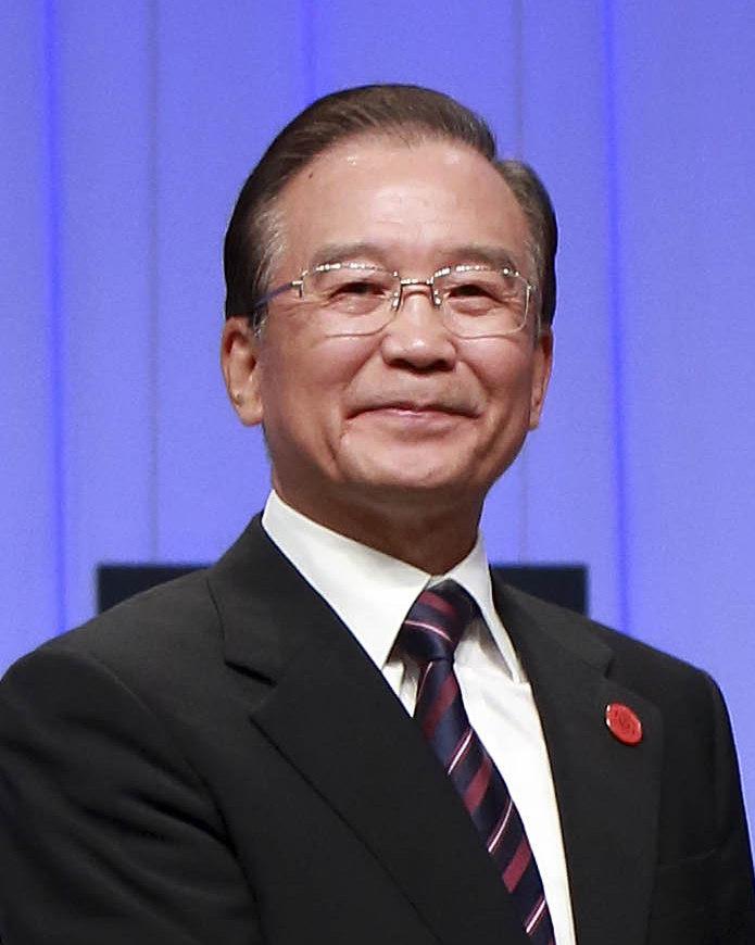 Premier Wen Jiabao at the Annual Meeting of the New Champions in Tianjin, China.